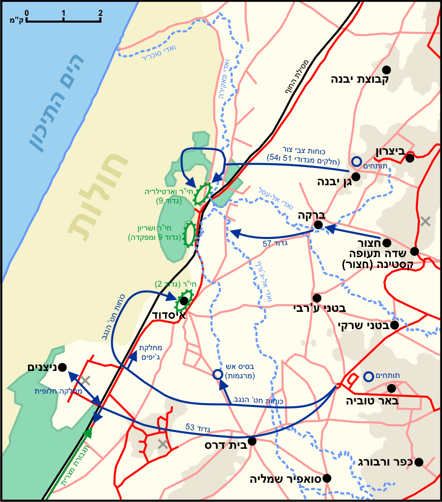 Operation Pleshet map in Hebrew.